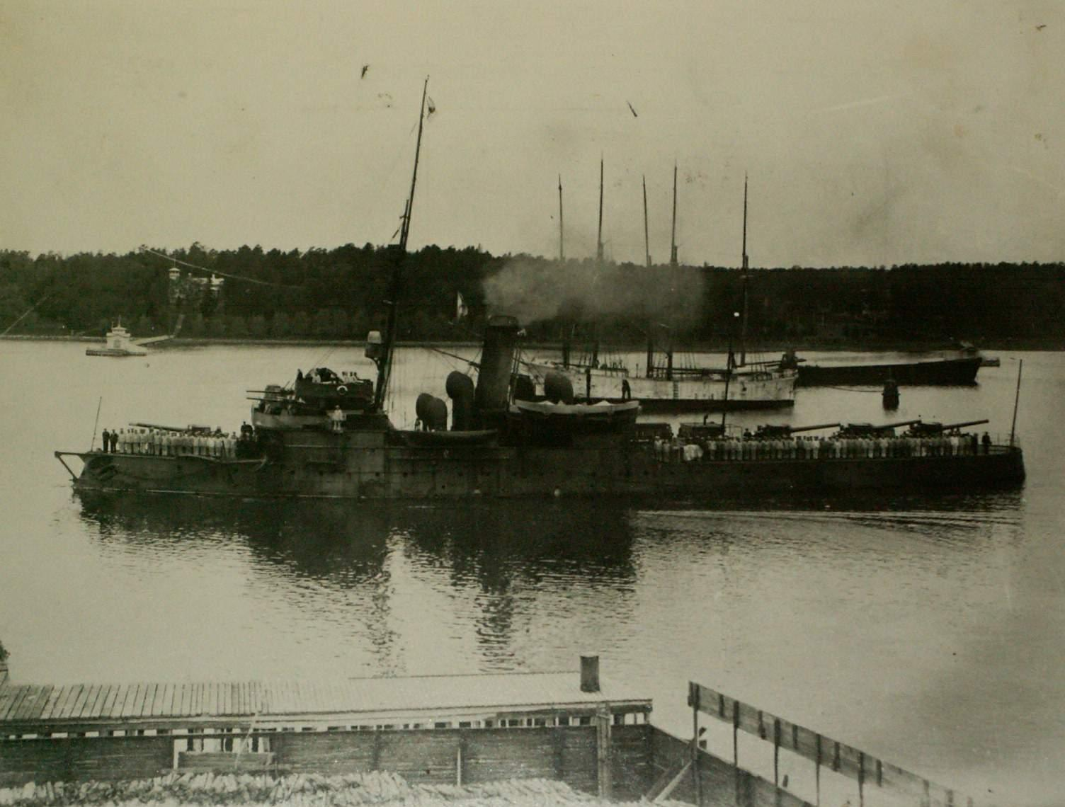 Imperial Russian gunboat Grozyashchiy, 1916-1917.